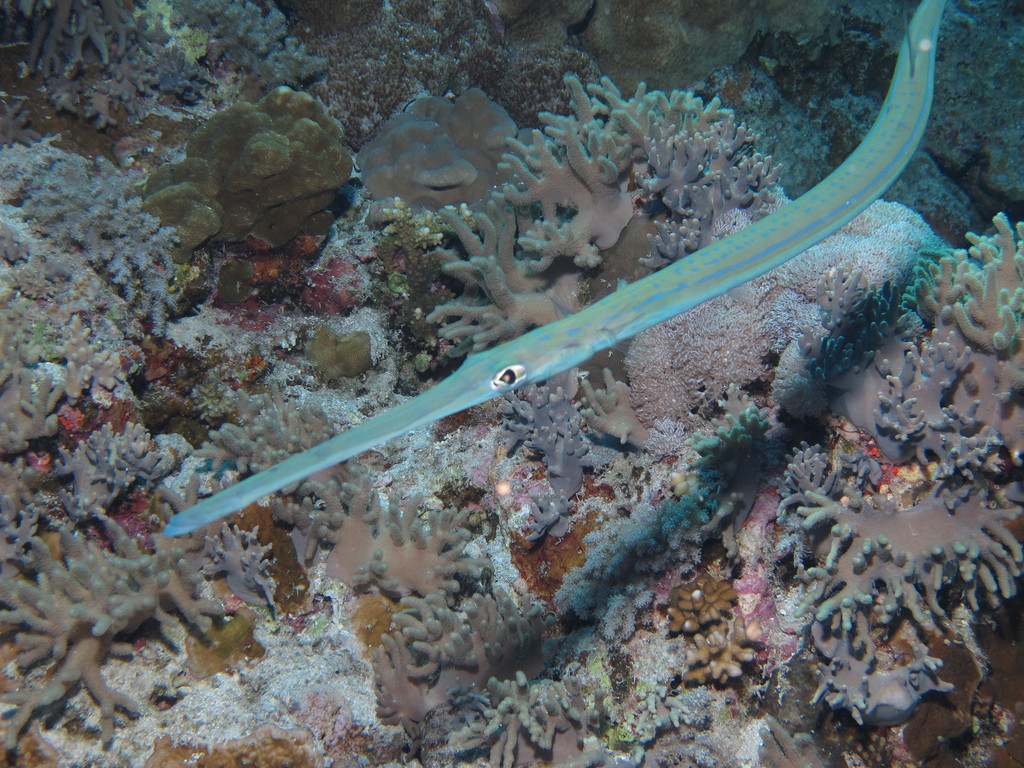 Bluespotted Cornetfish, Fistularia commersonii - aslso known as the Smooth Flutemouth - at Little Brother, Red Sea, Egypt #SCUBA